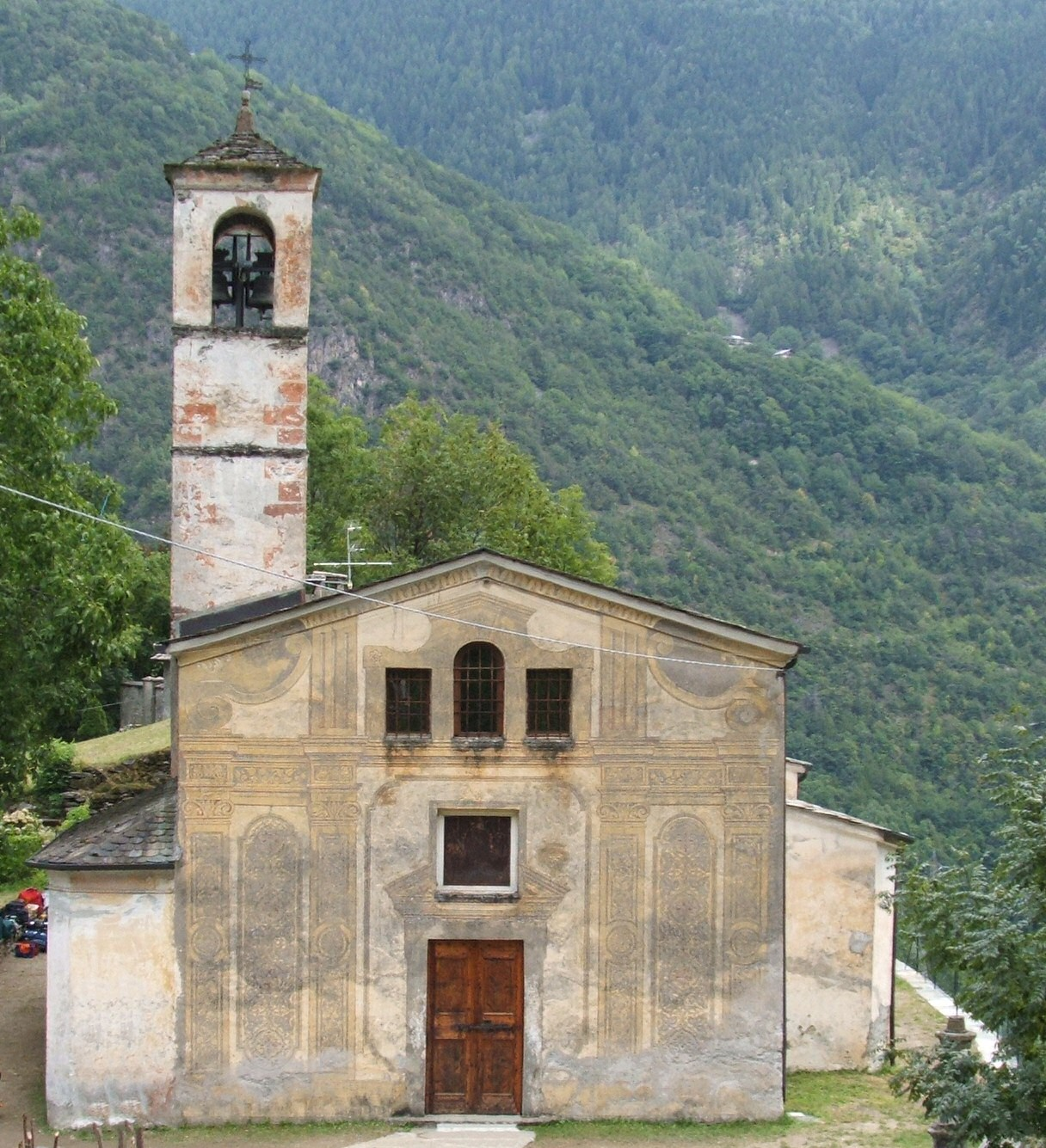 Torre di Santa Maria, Sondrio, Lombardy, Italy - Saint Peter church in Cagnoletti